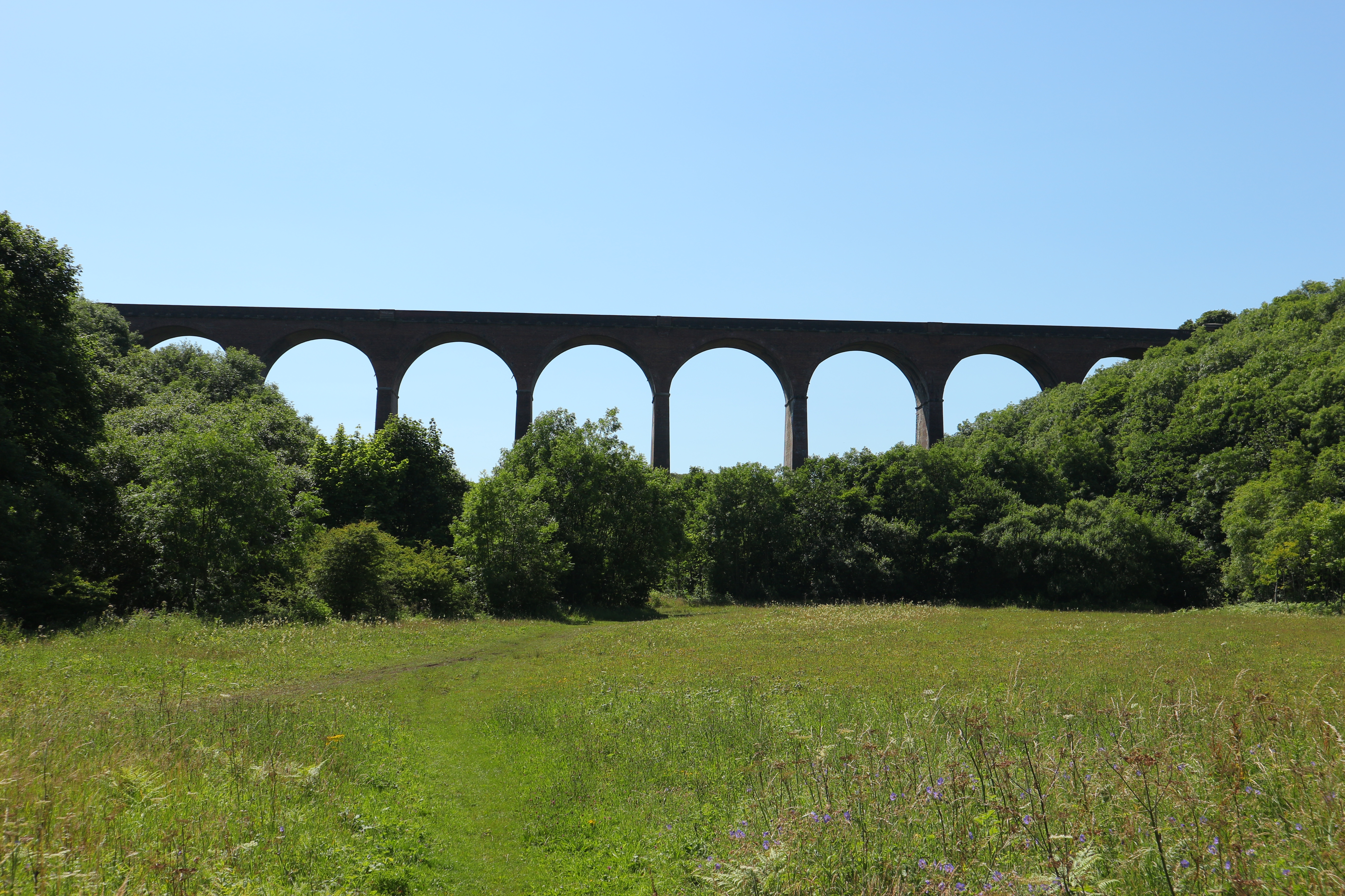 View west towards Denemouth Railway Viaduct which carries the Durham Coast Line over Castle Eden Dene. The viaduct was completed in 1905.